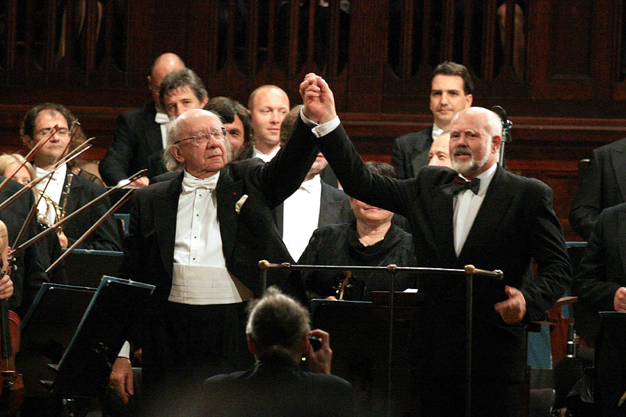 Russian conductor Gennady Rozhdestvensky (left) with Czech composer Lucas Matousek at the closing concert of Prague Spring Festival 2007, Municipal Hall, Prague.